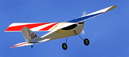 SQuiRT in flight